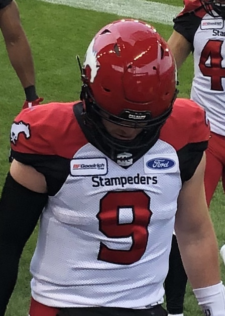 Nick Arbuckle, quarterback for the Calgary Stampeders.